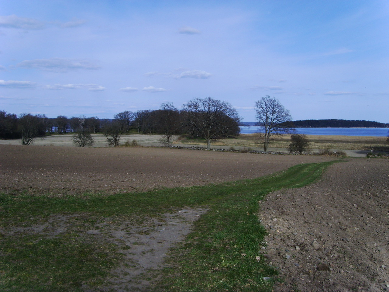 "Djuröns naturreservat", a nature reserve in the Municipality of Norrköping.